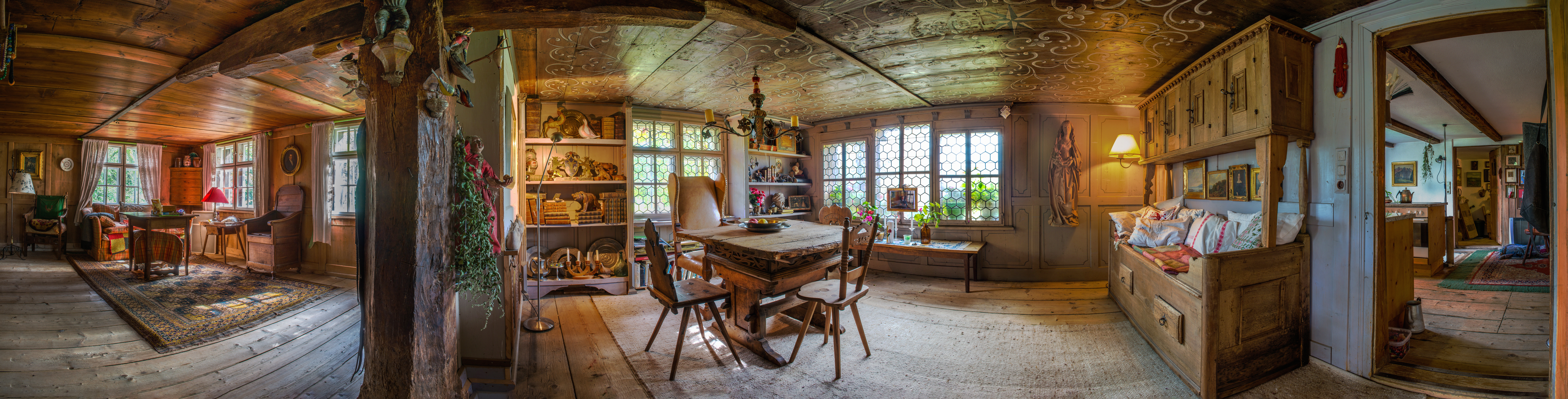 "Siebers Hus" farmhouse, former post station at Hadeldorfstraße No. 5 in Meiningen, Vorarlberg. Heritage Rheintalhaus, built in the 17th century, refurbished in the 18th century, interior design dates back to 1900. The building is privately owned and therefore not open to the public.